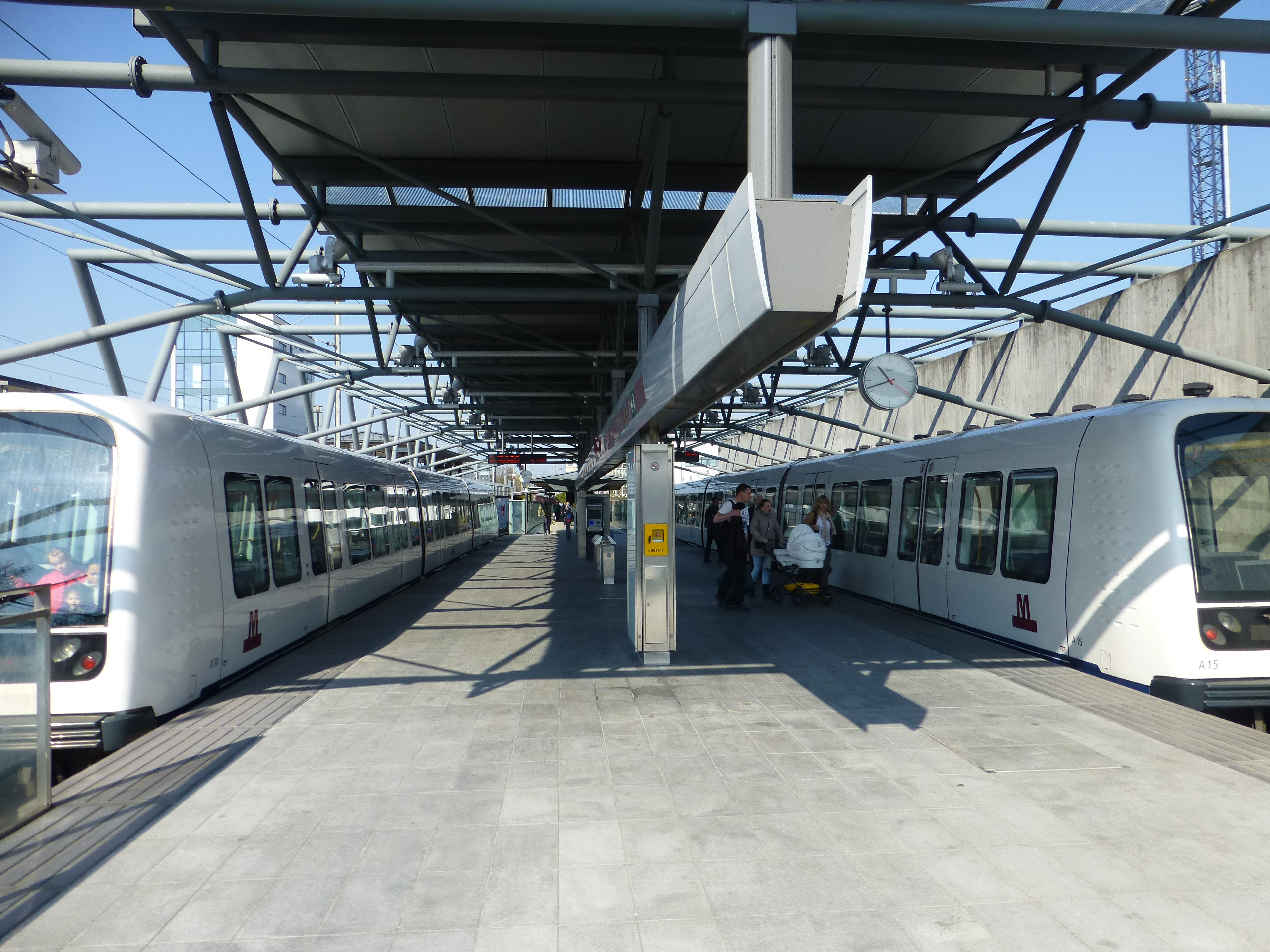 Vanløse Station is a S-train and metro station in Copenhagen.